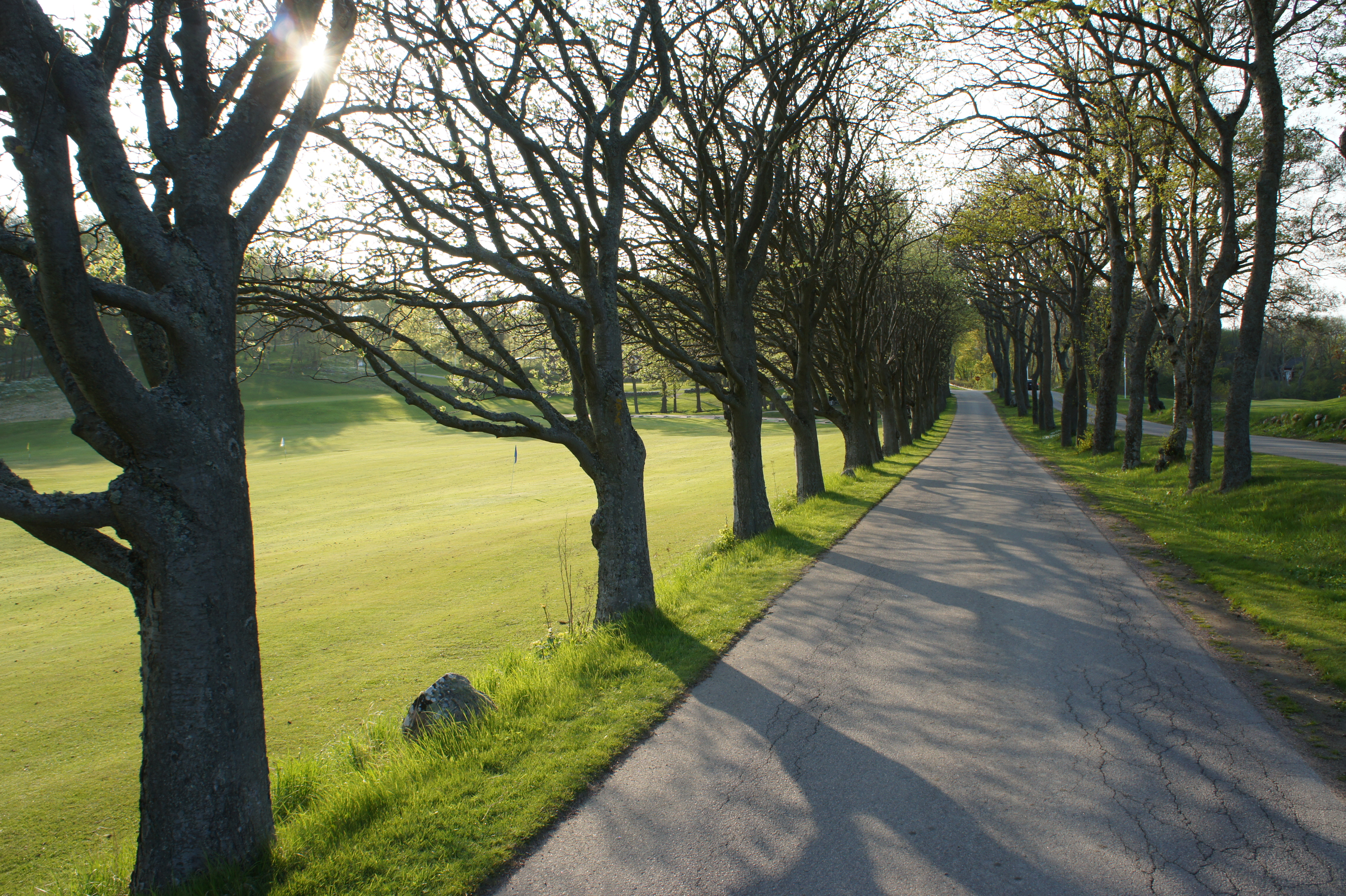 The avenue leading to Kullagården, Höganäs municipality, Sweden